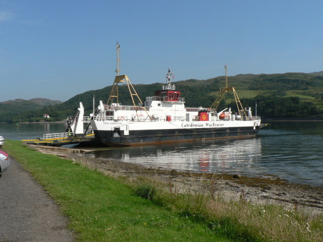 Rhubodach: the ferry The ferry to Colintraive on the mainland has just arrived on the Isle of Bute.